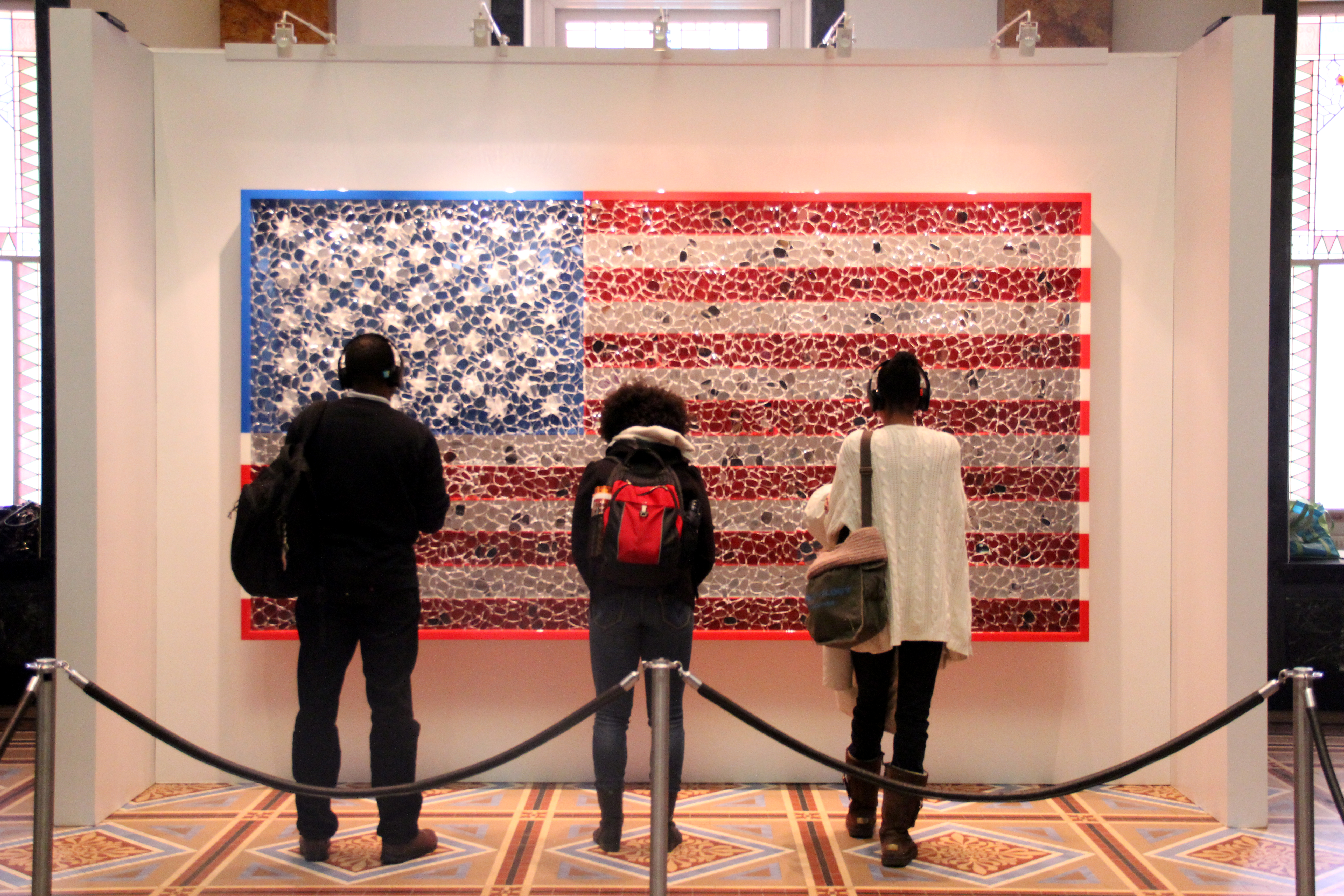 Portrait of America, from David Datuna’s “Viewpoint of Billions” series, is a 12-foot multimedia American flag covered in hundreds of eyeglass lenses.